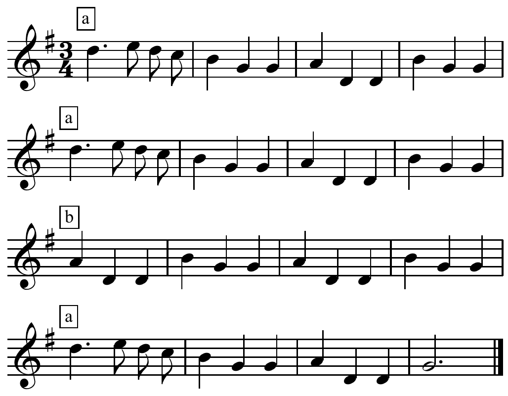 "Ach! du lieber Augustin", repetition after digression. Created by Hyacinth (talk) 22:53, 10 May 2011 (UTC) using Sibelius 5.